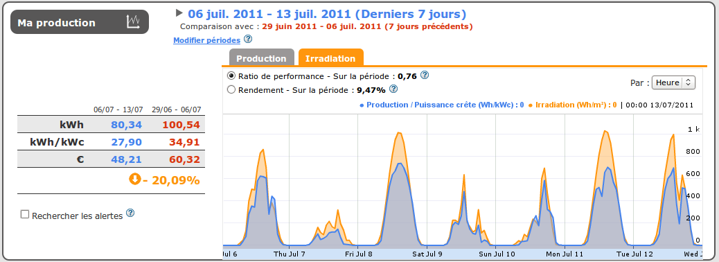 Software for photovoltaic monitoring